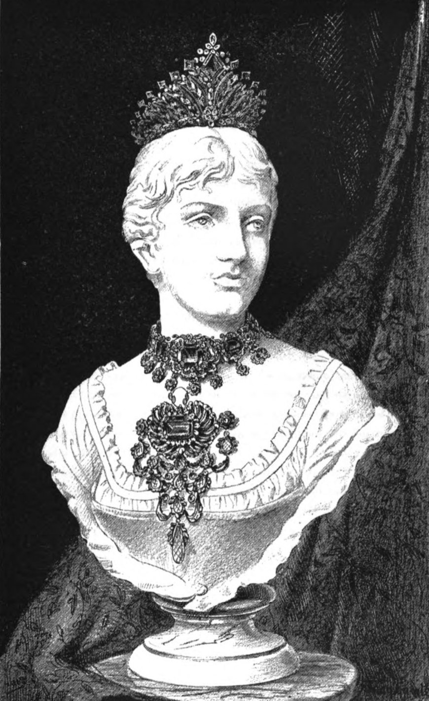 Aquamarine parure designed by Paulding Farnham that was exhibited at 1893 World's Columbian Exposition.